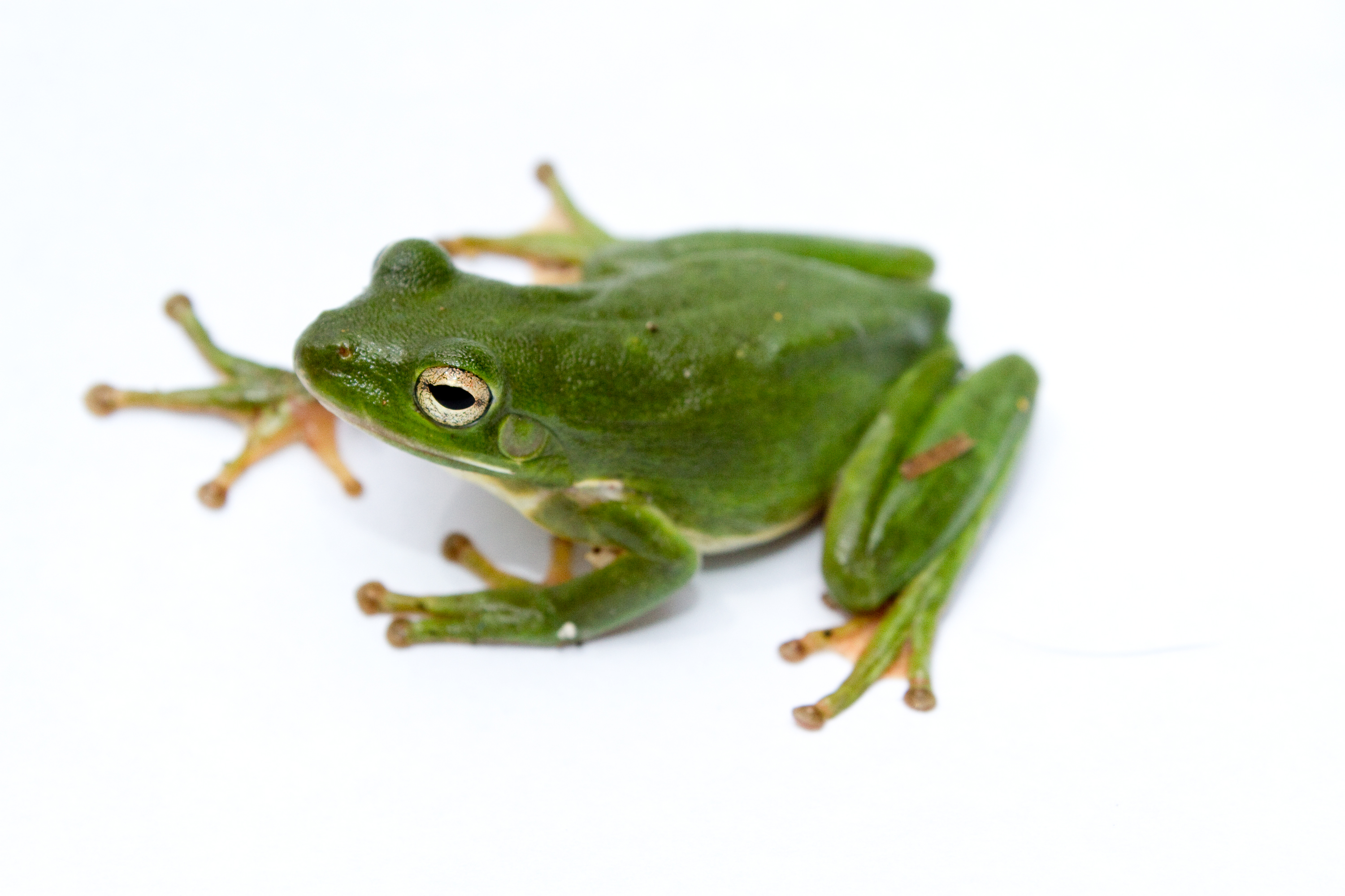 Hyla cinerea (American green tree frog) Appalachian Mountains, United States